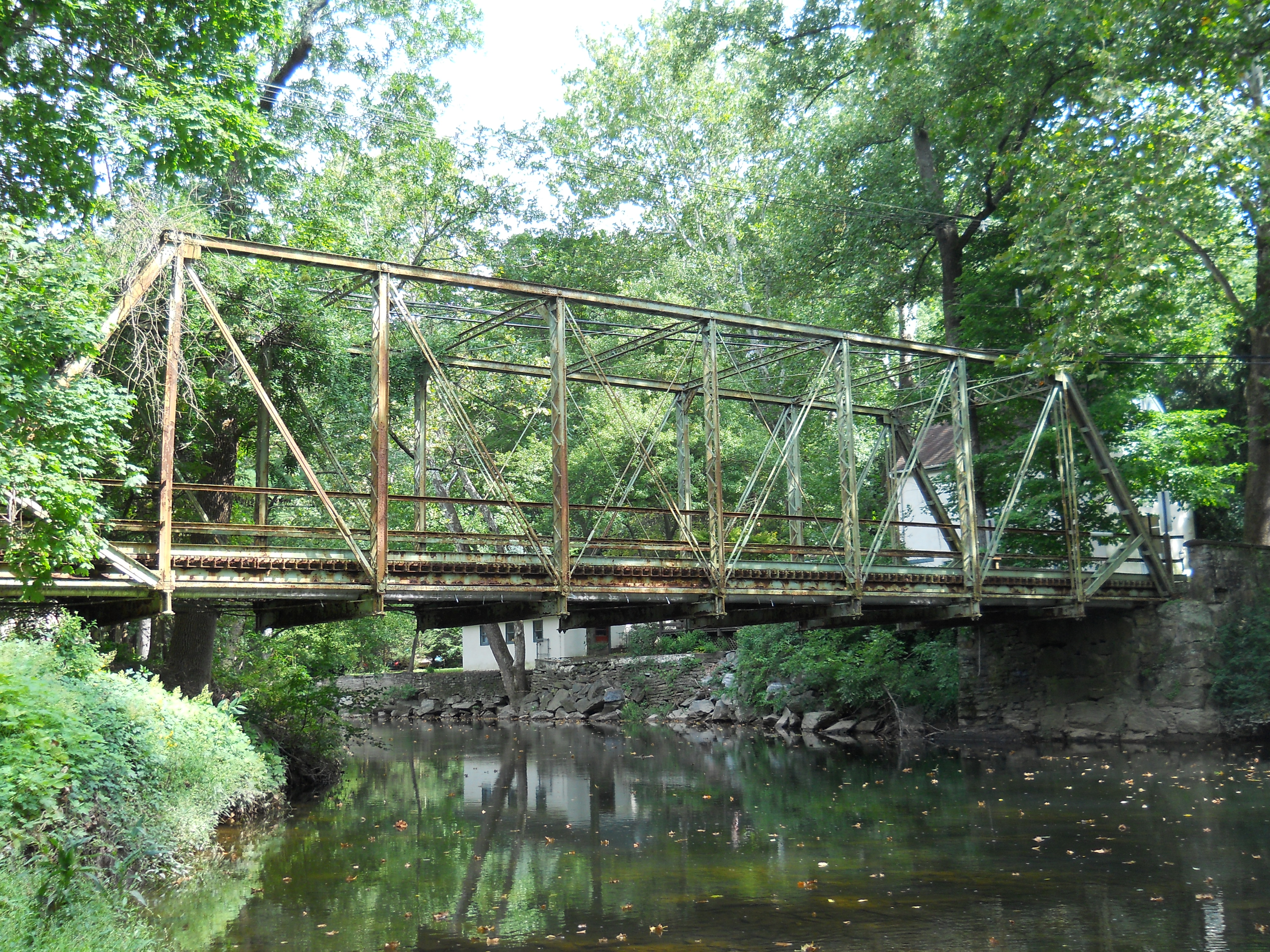 Fetter's Mill Village Historic District Fetter's Mill Village Historic District. Iron Bridge on Fetter's Mill Rd. over Pennypack creek.